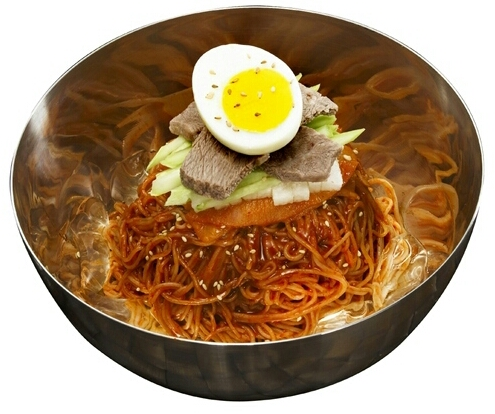 Buckwheat noodles and vegetables, typically radish and Korean pear, in a red chili sauce